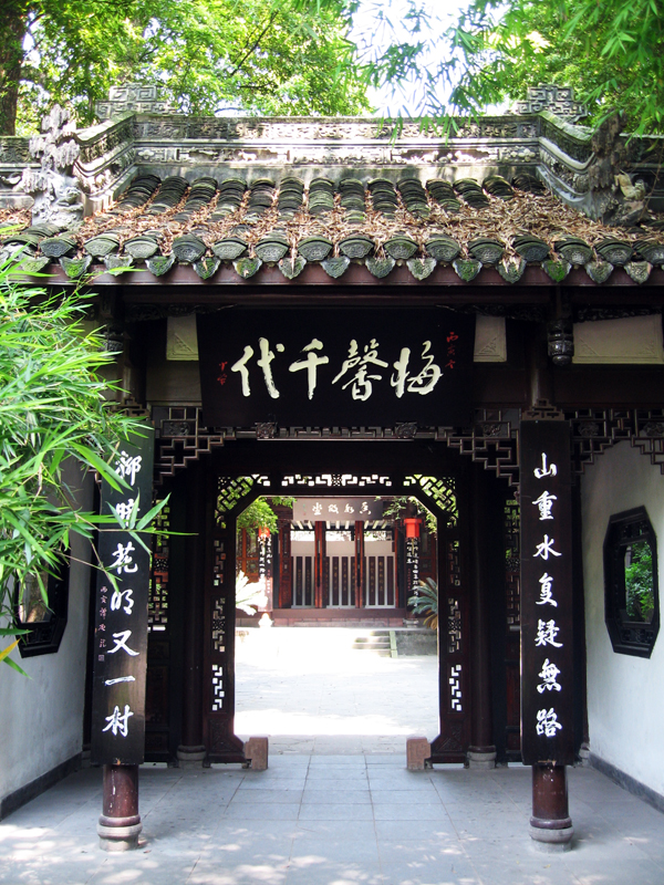 Luyou Temple in Yanhuachi, a Szechwanese classical garden near Chengdu